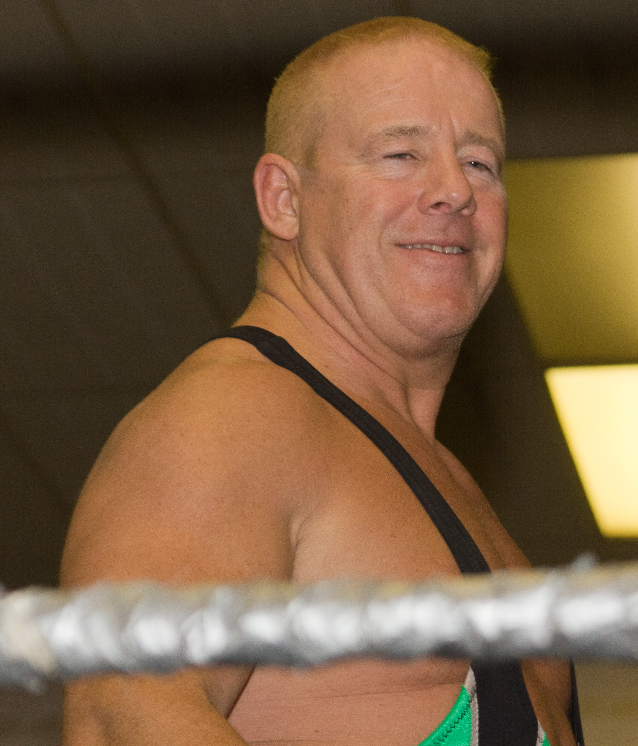 Fit Finlay in the ring at a Stampede Wrestling show in Barrie, ON